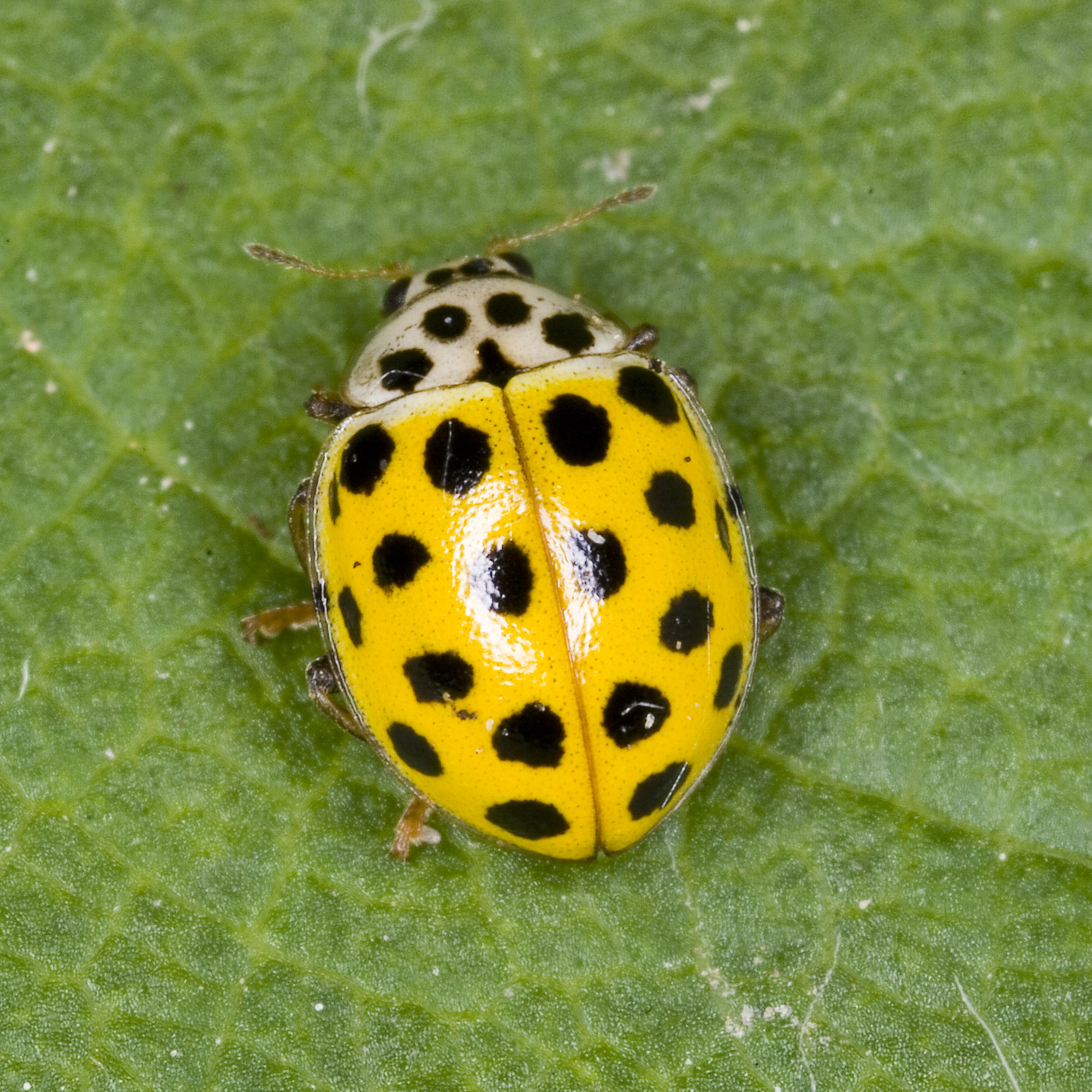 Please report references to .